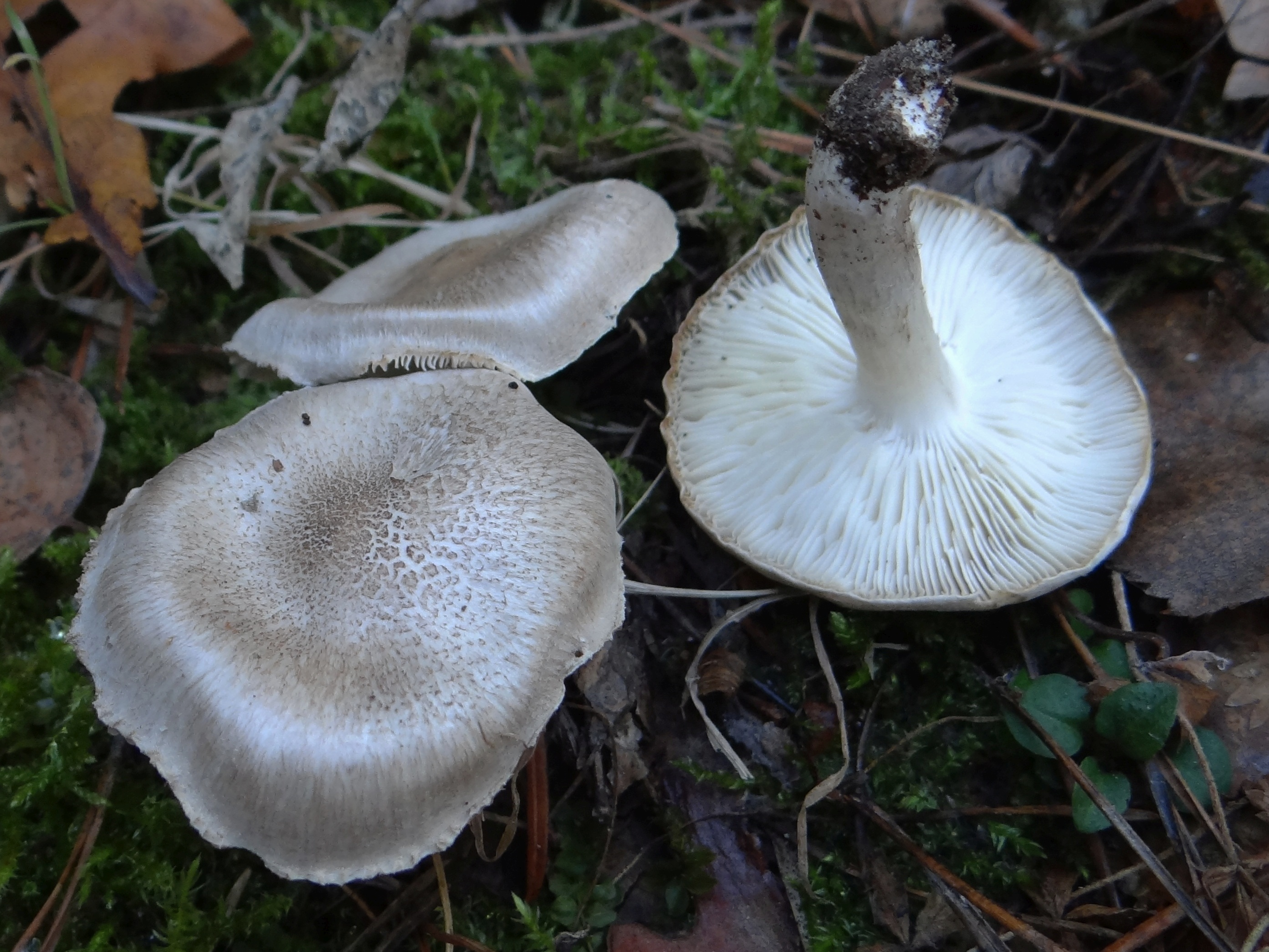 Tricholoma scalpturatum (location: Poland, nowe Rybie)